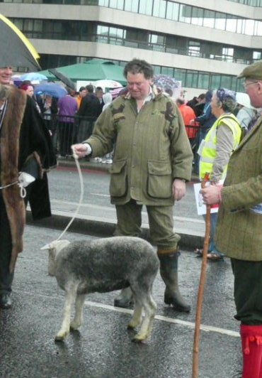 Freeman of the City of London and Liveryman Mark Stephens driving sheep across London Bridge in July 2009